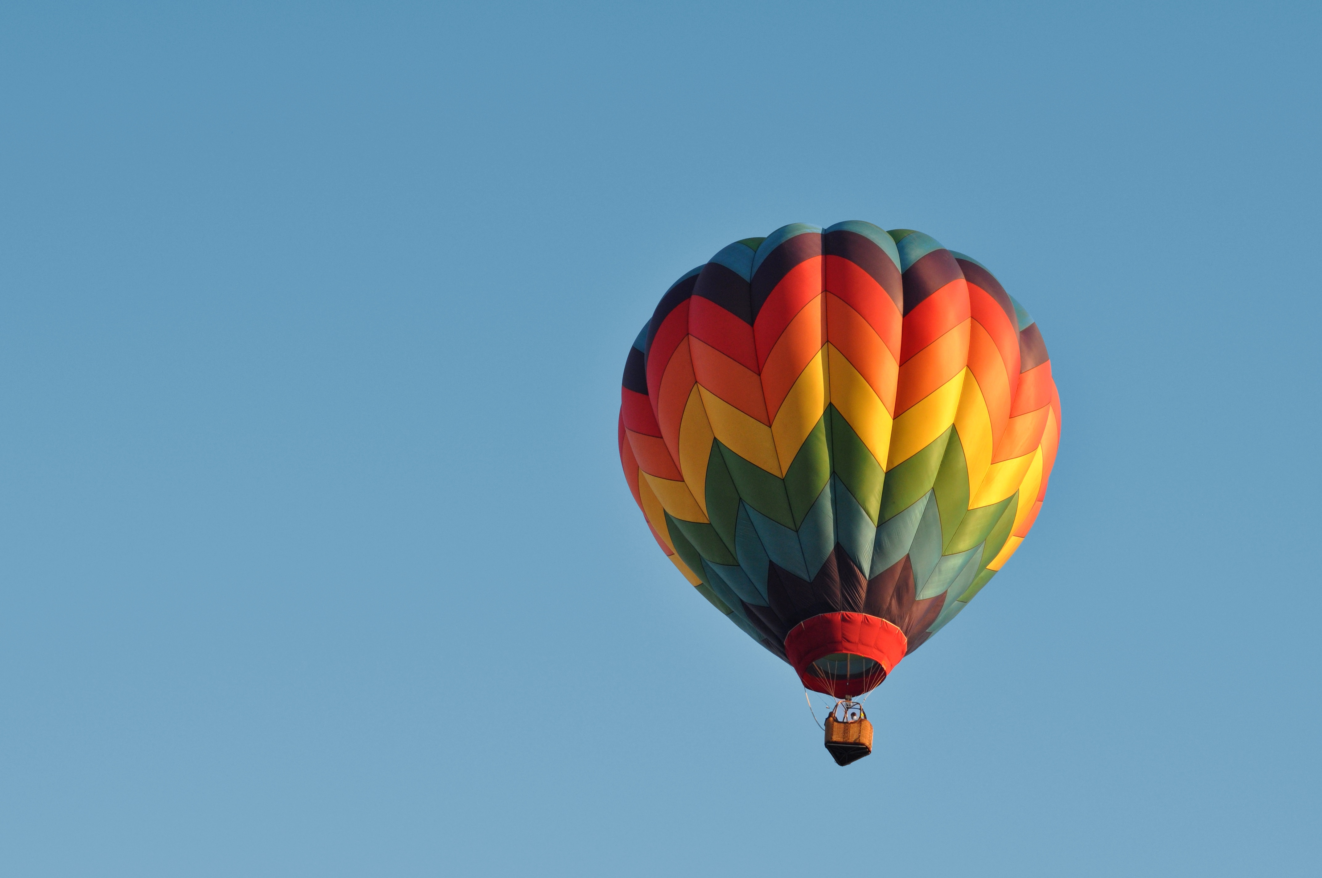 Generic image of a hot air balloon in flight.